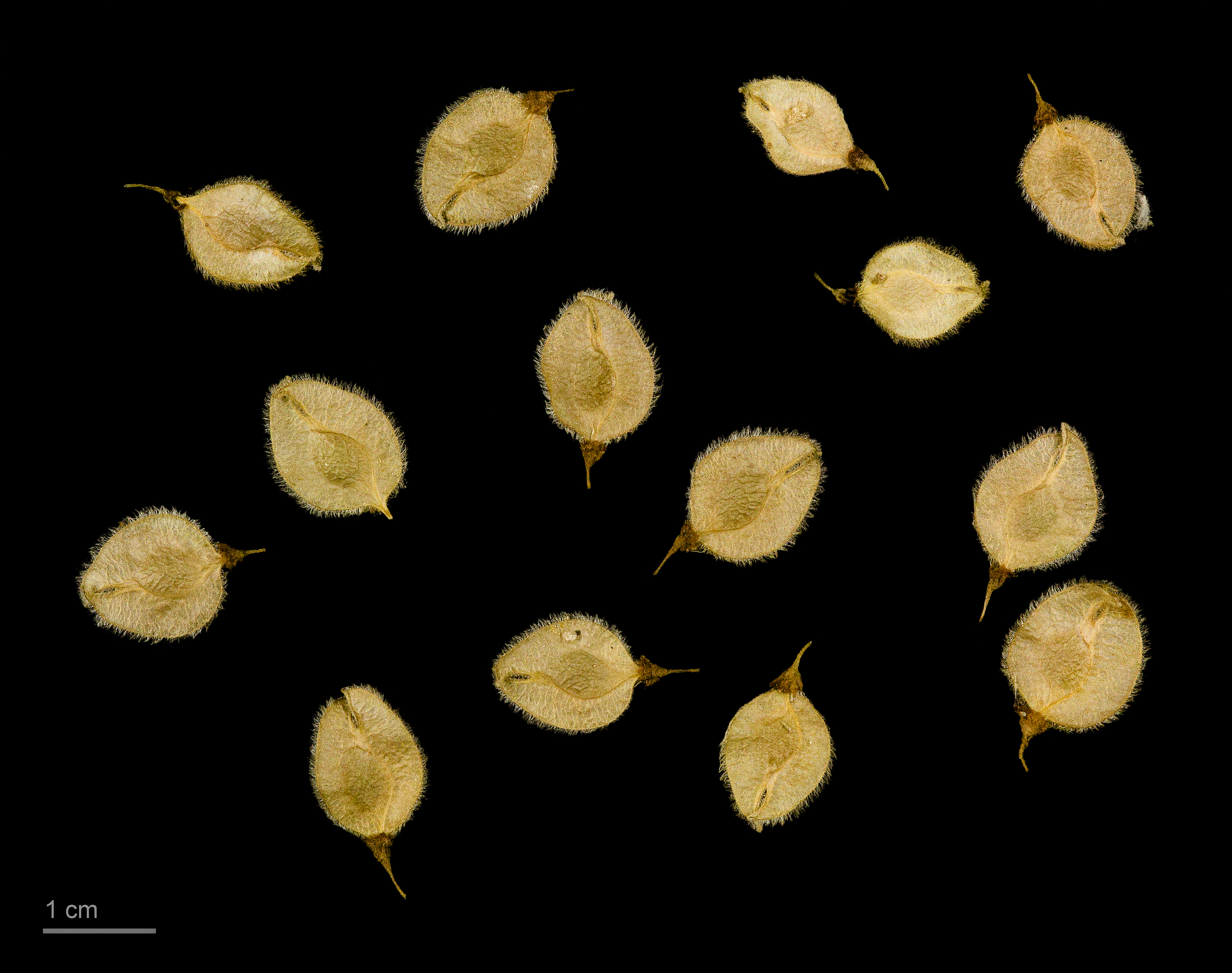 European White Elm , fruits and seeds